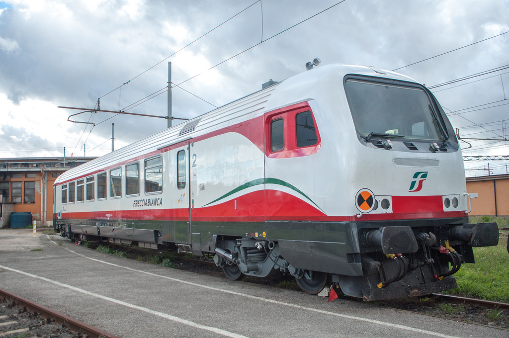 UIC-Z driving coach in the depot of Roma San Lorenzo